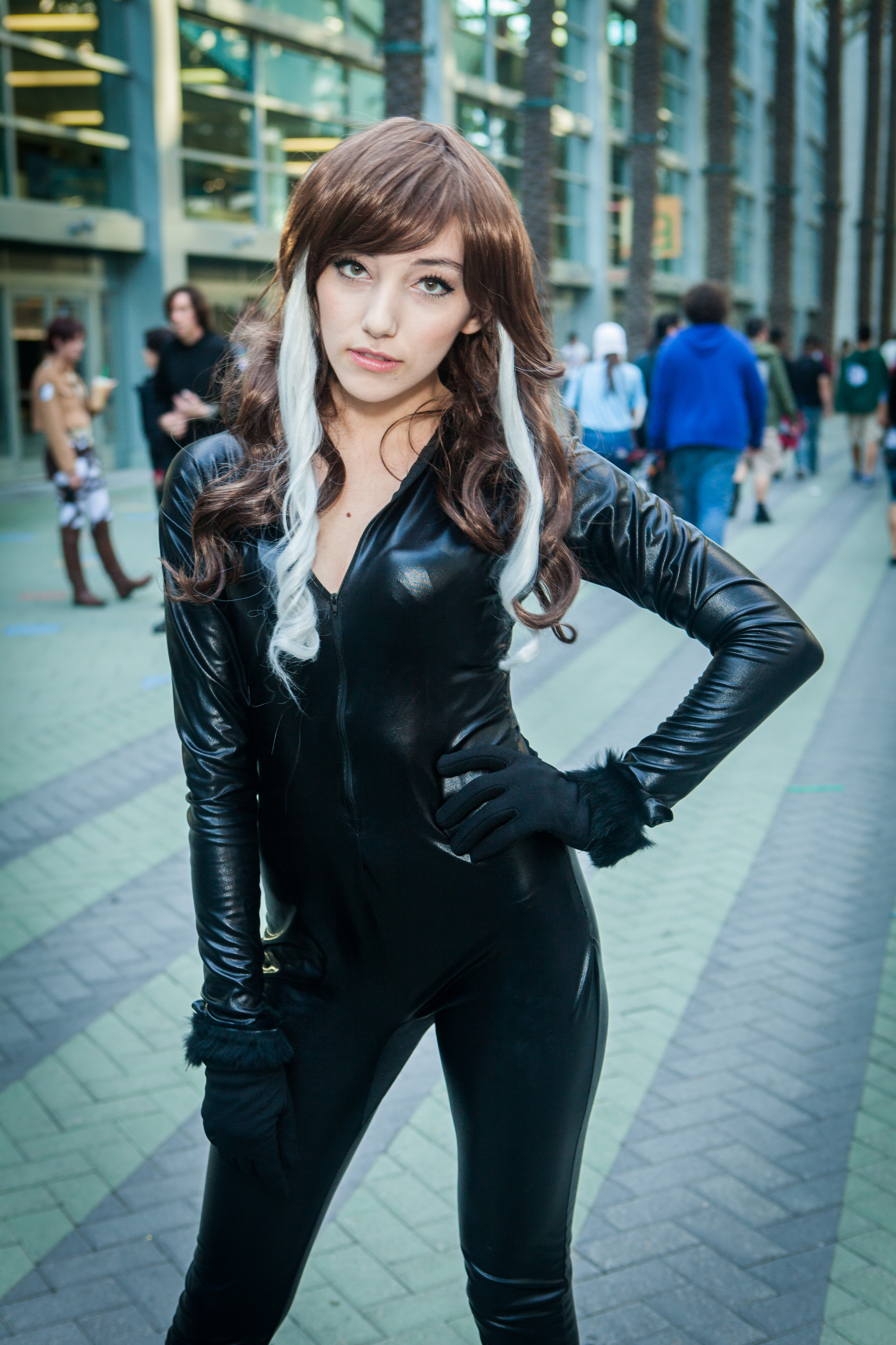 Wondercon 2014-7733